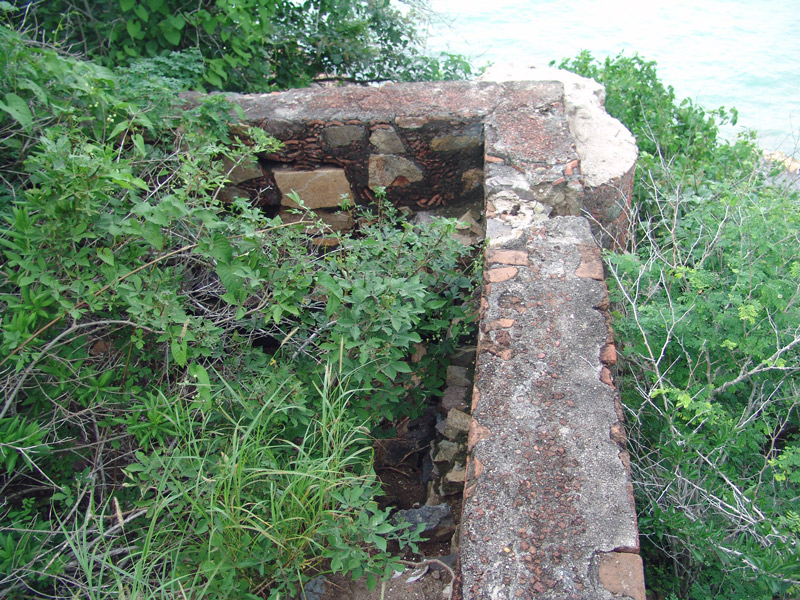 Remains of spanish fortification in Chamela, Jalisco, Mexico. (Spanish colonial province of Nueva Galicia). This fortification is known as the "Castillo de Alvarado"